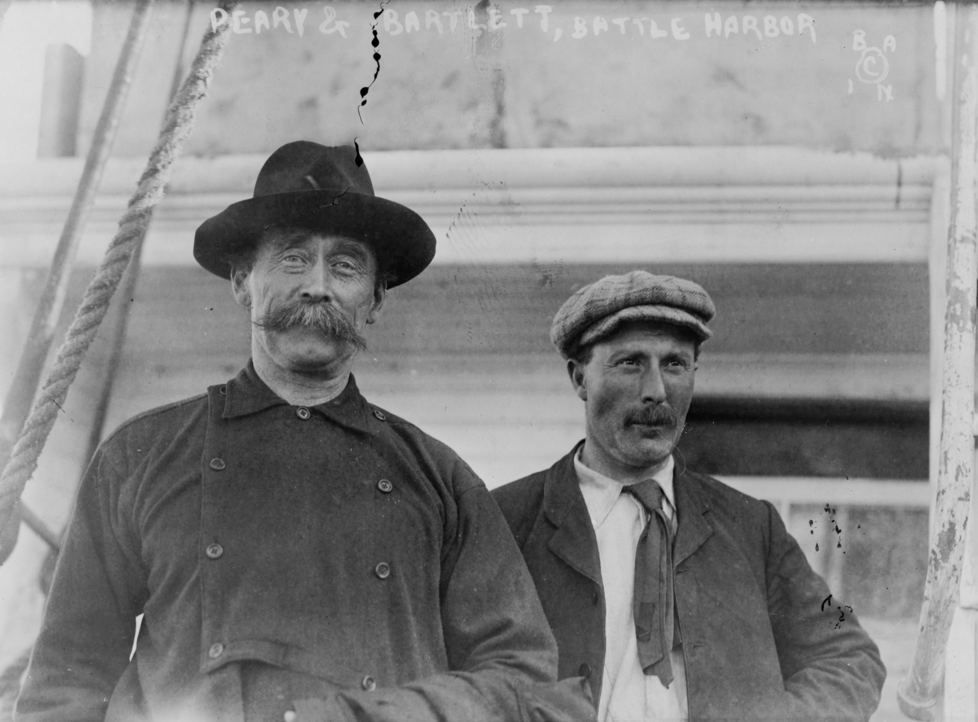 Captain Bob Bartlett (right) and Robert Edwin Peary (left), half-length portrait, standing on ship, Battle Harbour, Labrador. 1909.